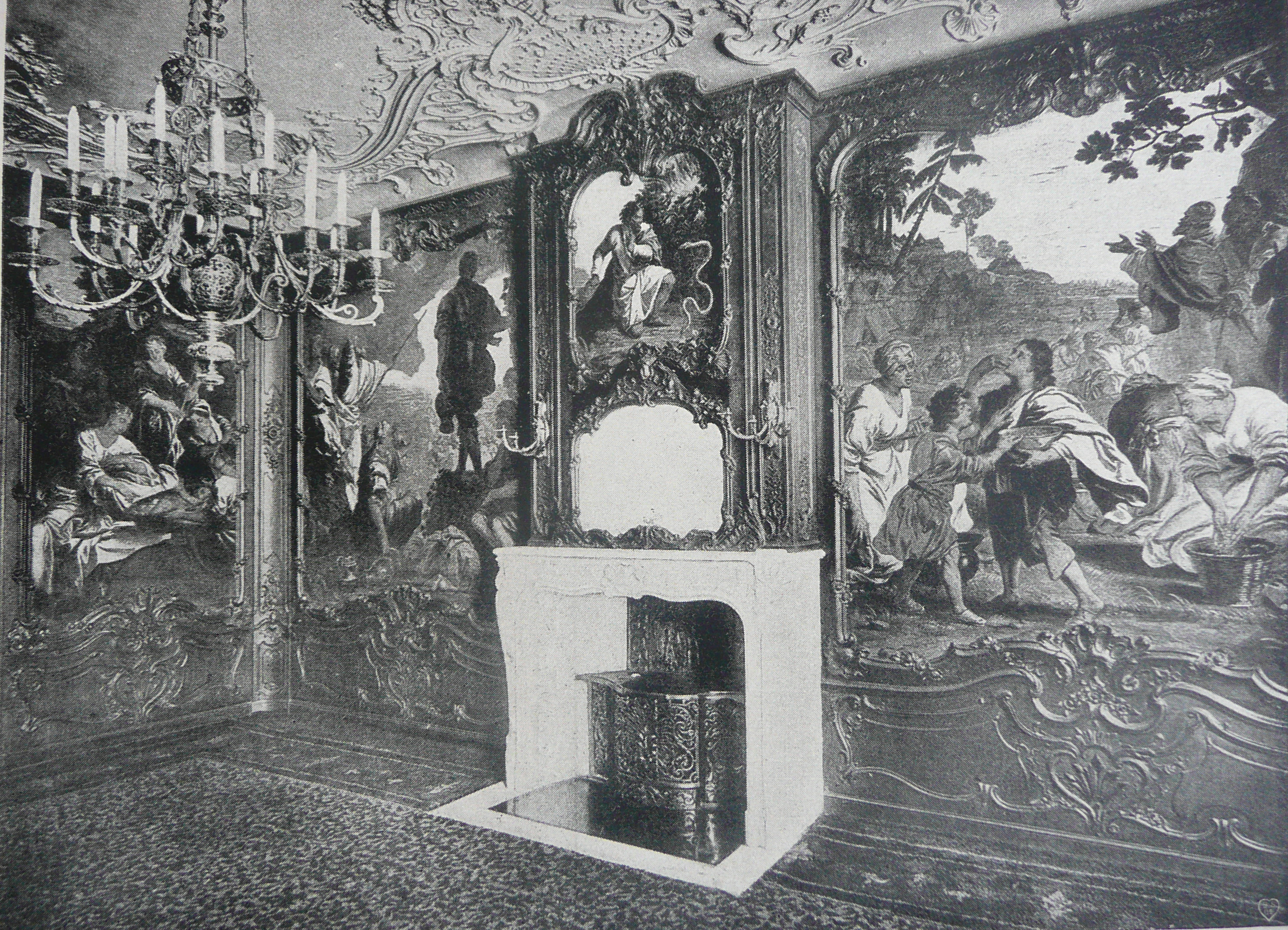 Interior of Wespienhaus, Aachen (Germany)